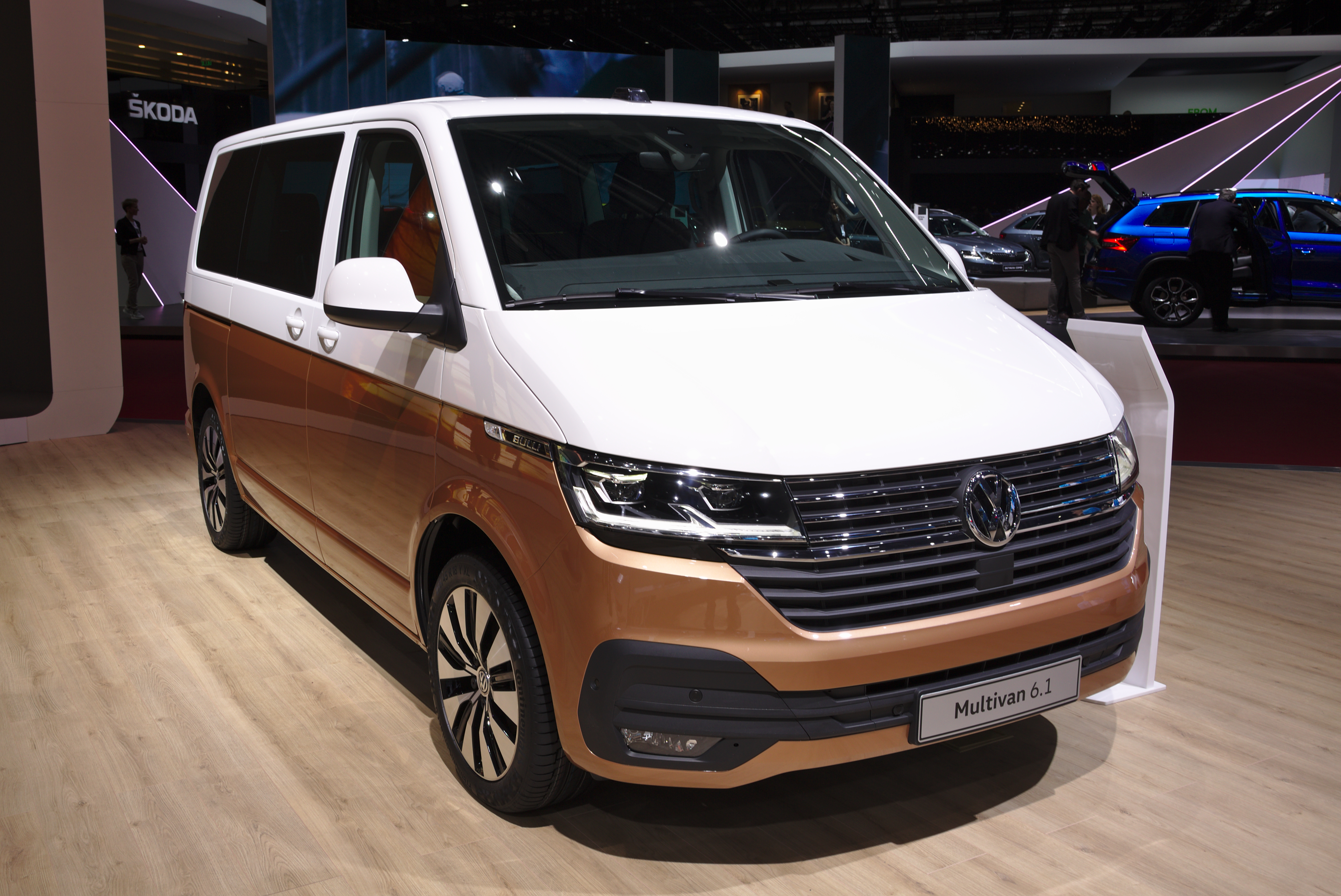 VW Multivan 6.1 at Geneva Motor Show 2019